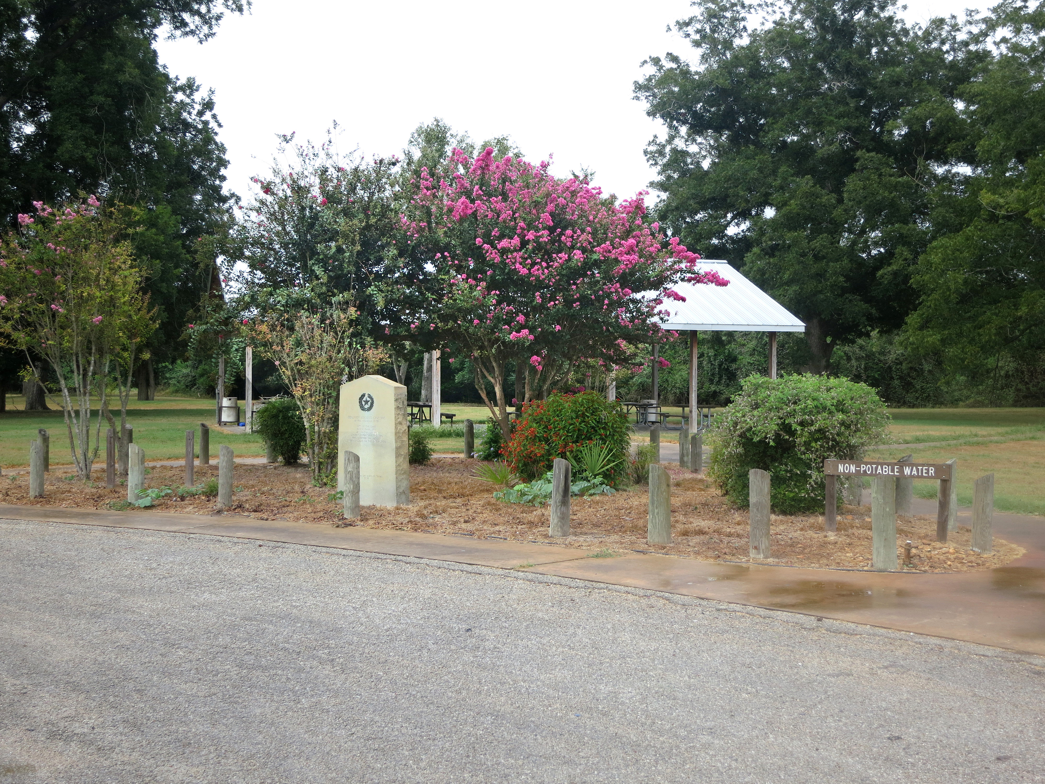 Site of the camp, where on March 19-26, 1836 the Texas Army under General Sam Houston, who directed the retreat from Gonzales to the San Jacinto